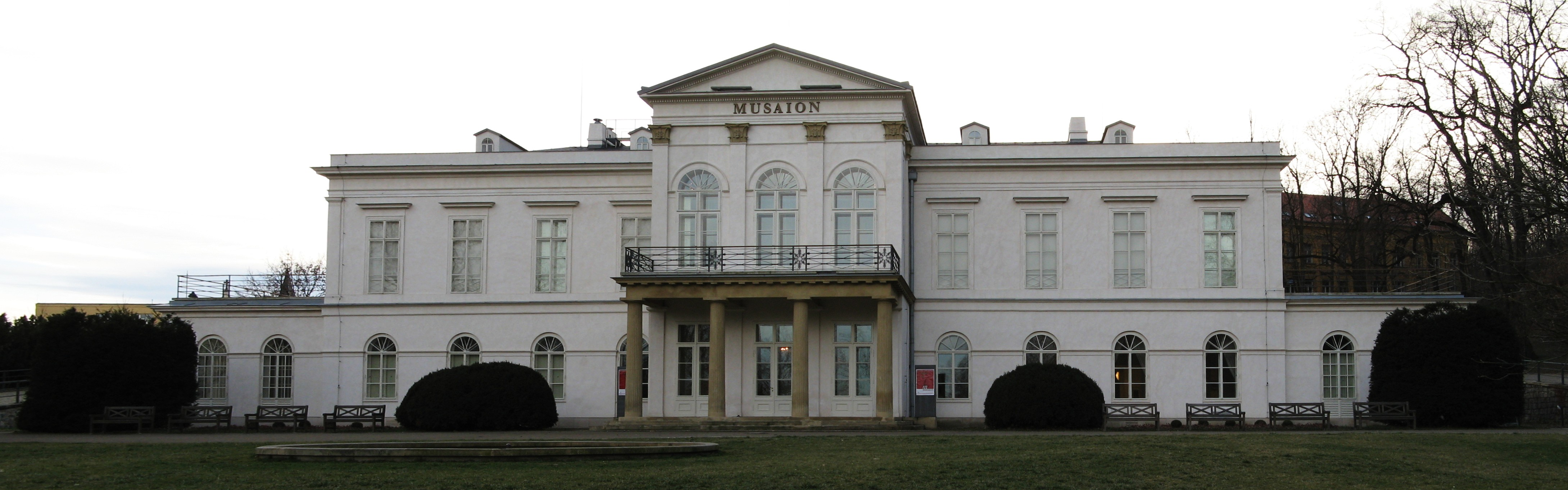 Kinský summerhouse in Prague